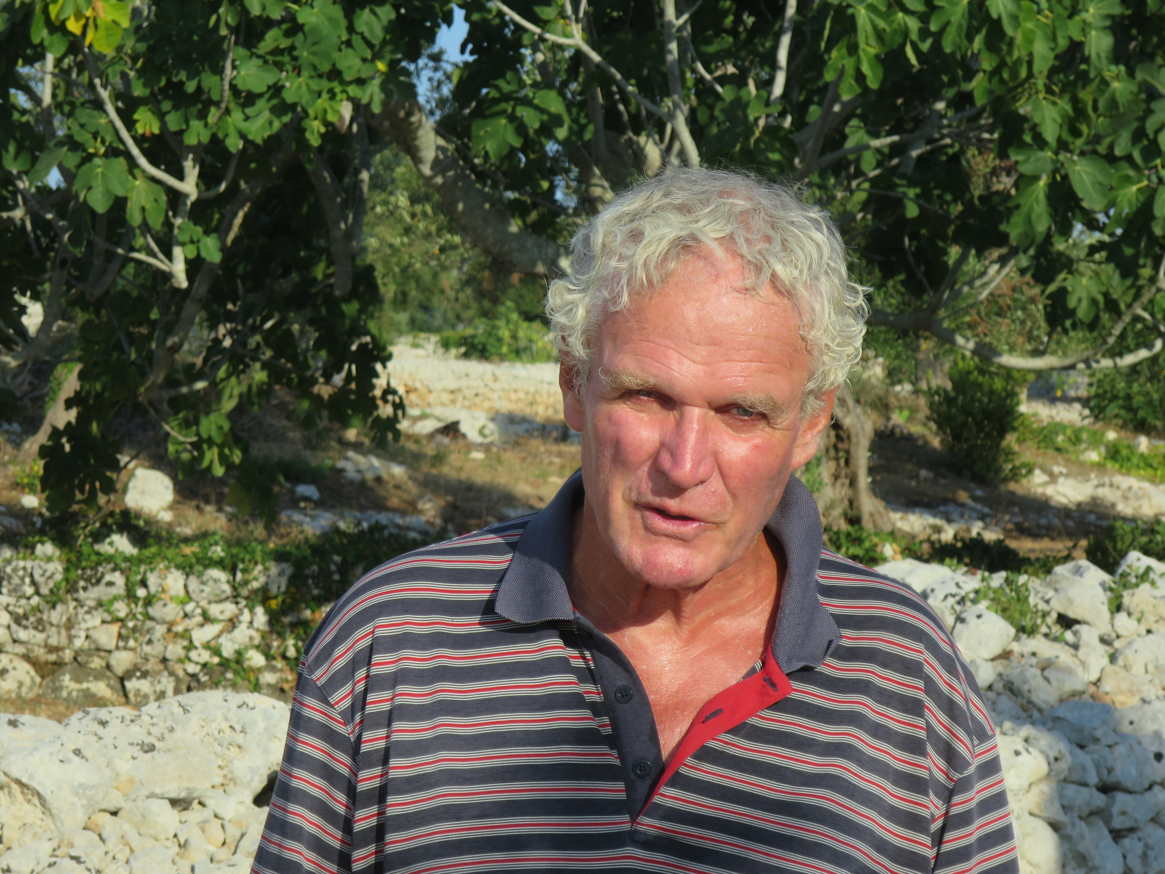 Konrad Schacht